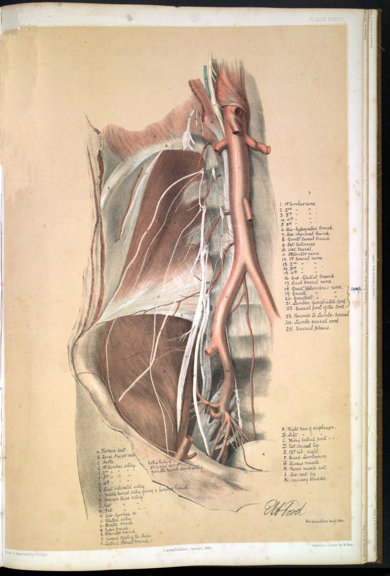 Plate XXXVII "Abdominal wall removed to show aorta, iliac arteries and their branches, lumbosacral plexus, sympathetic trunk and sympathetic ganglia. Thoracic duct, bladder, spine and pelvic bones also shown. "Illustrations of dissections", G.H. Ford. Printed by W. West.